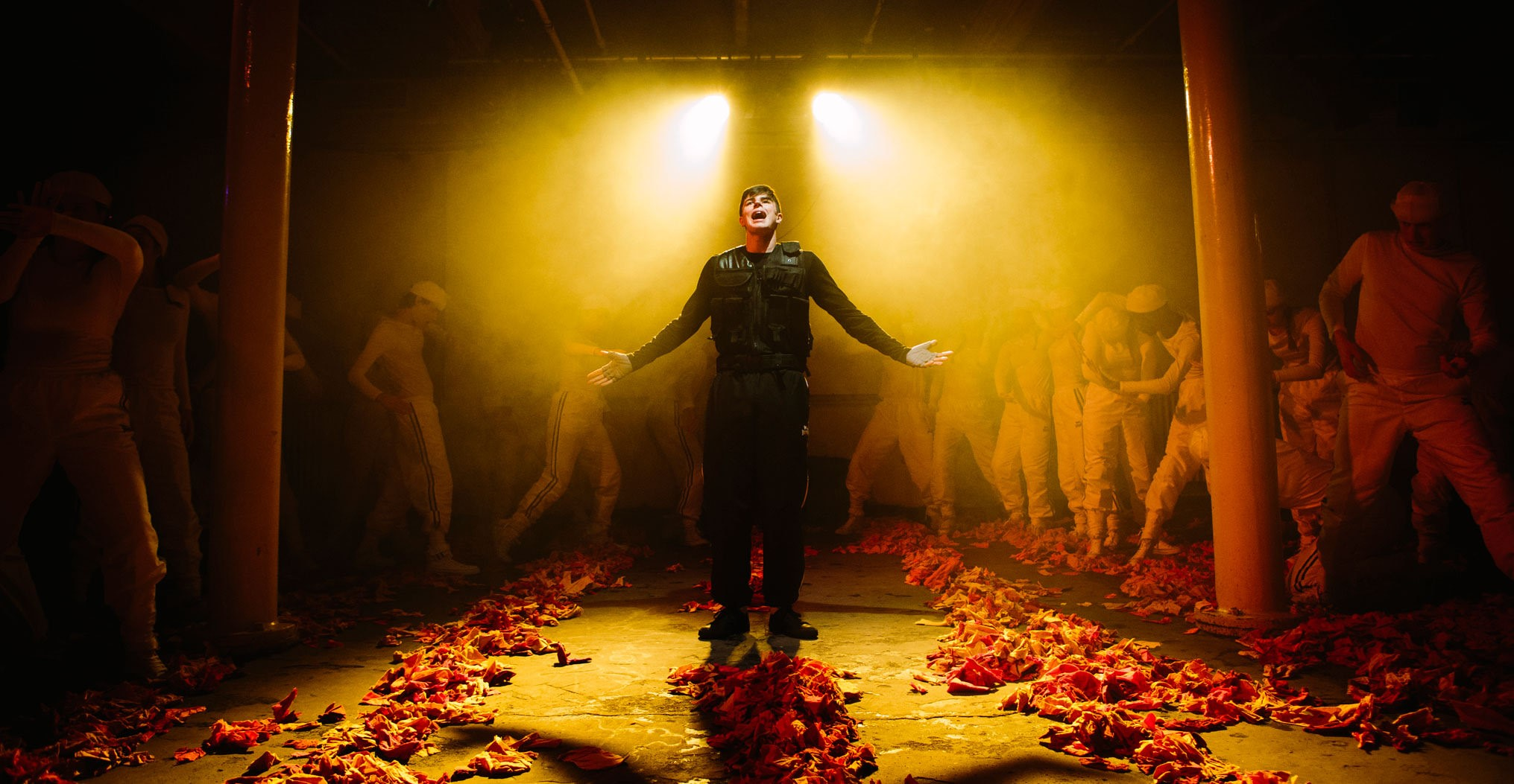 The Dark Tower, Bussey Building, London August 2016